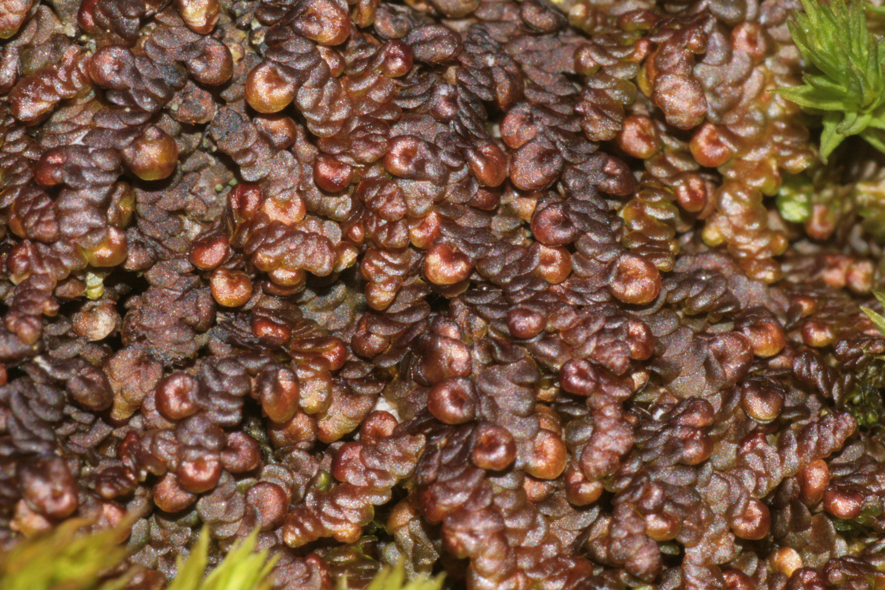 Frullania dilatata